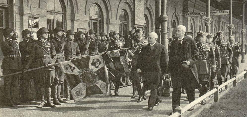 President of Estonia, Konstantin Päts visiting Polish president, Ignacy Mościcki. Warsaw main railway station, 1935.